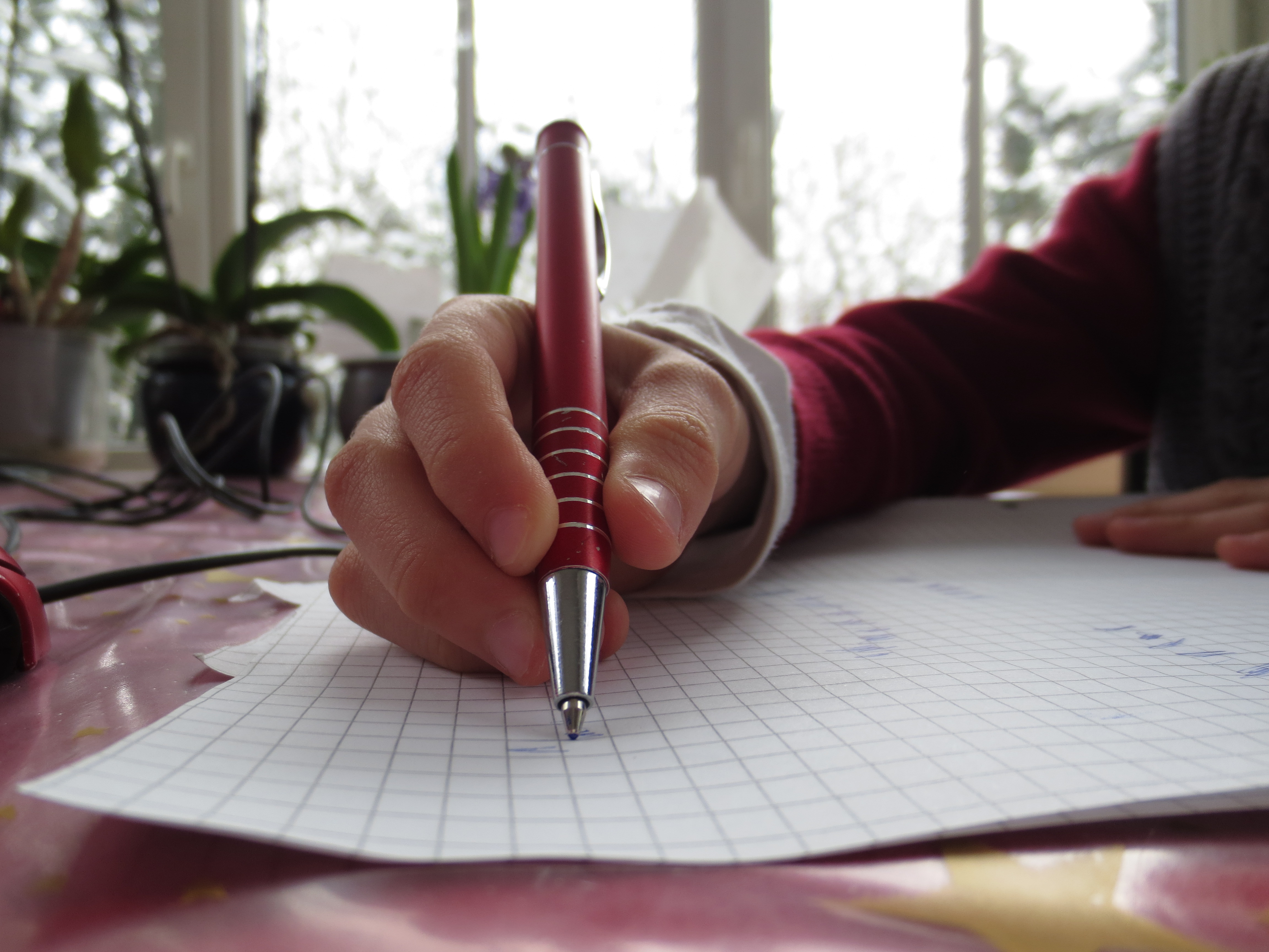 A child is writing with a pen.